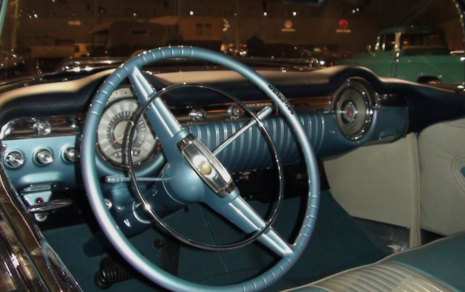 GM Heritage Center.